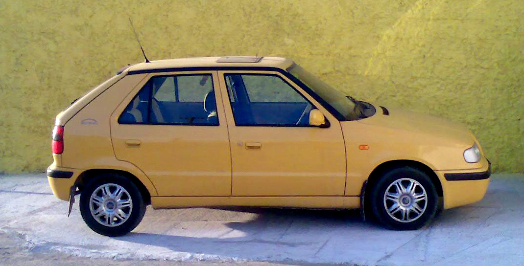 Škoda Felicia Color Line